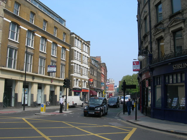 Clerkenwell Road, EC1 (1). At the junction of St John Street 415607 415610 , looking towards Old Street.